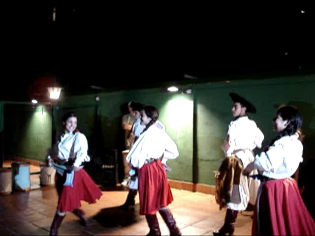 Folklore dance: Zamba. Argentina. Gaucho.